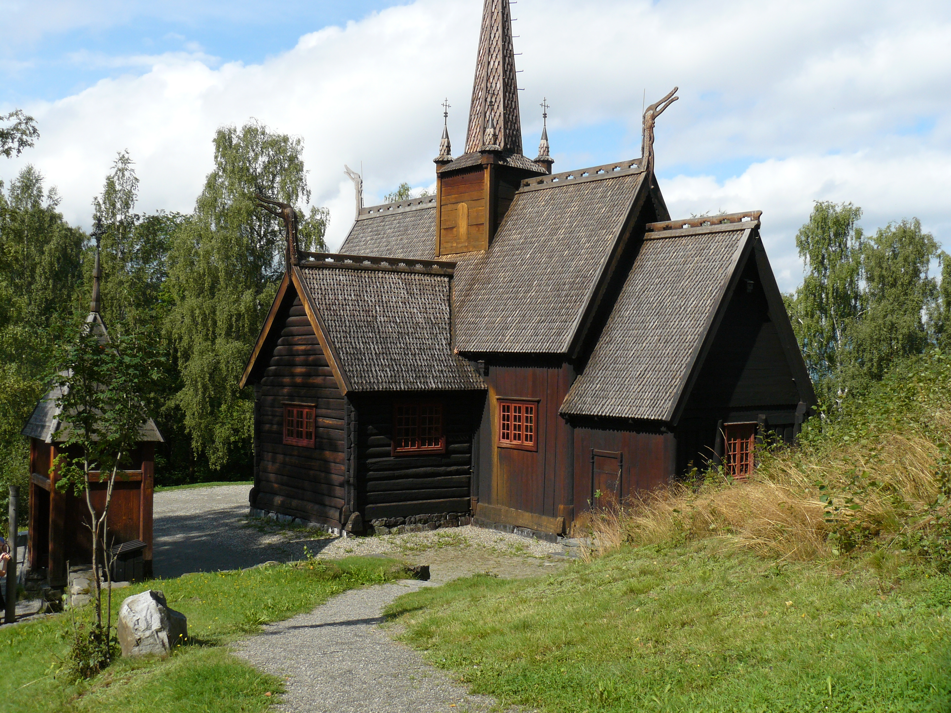 Lillehammer, Norway, Maihaugen open air museum. Garmo stave church.